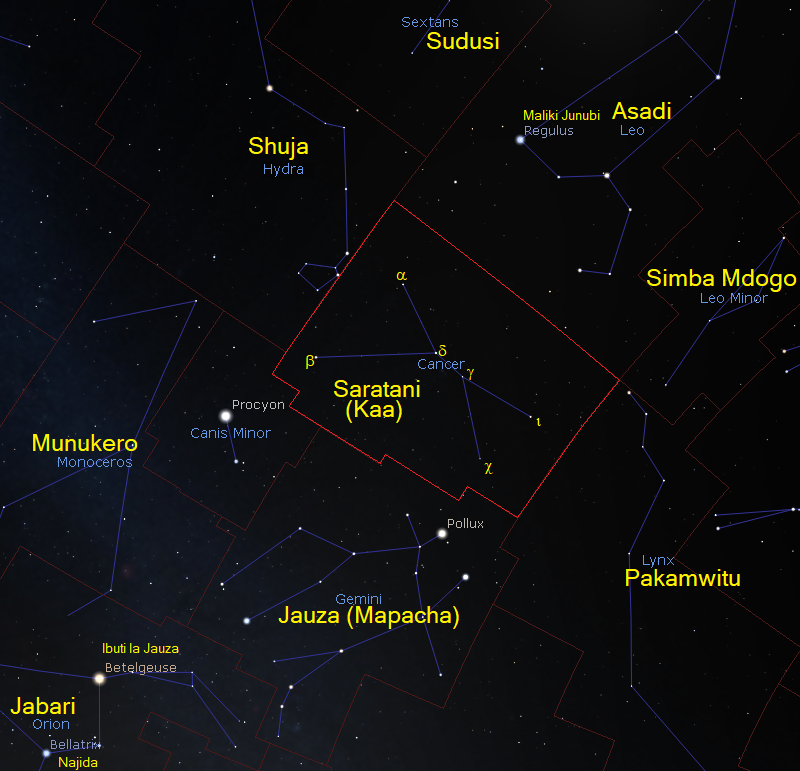 Constellation Cancer as seen from Tanzania, Swahili labelled Kiswahili: Kundinyota Saratani (Cancer) jinsi inavyoonekana kutoka Tanzania, majina kwa Kiswahili